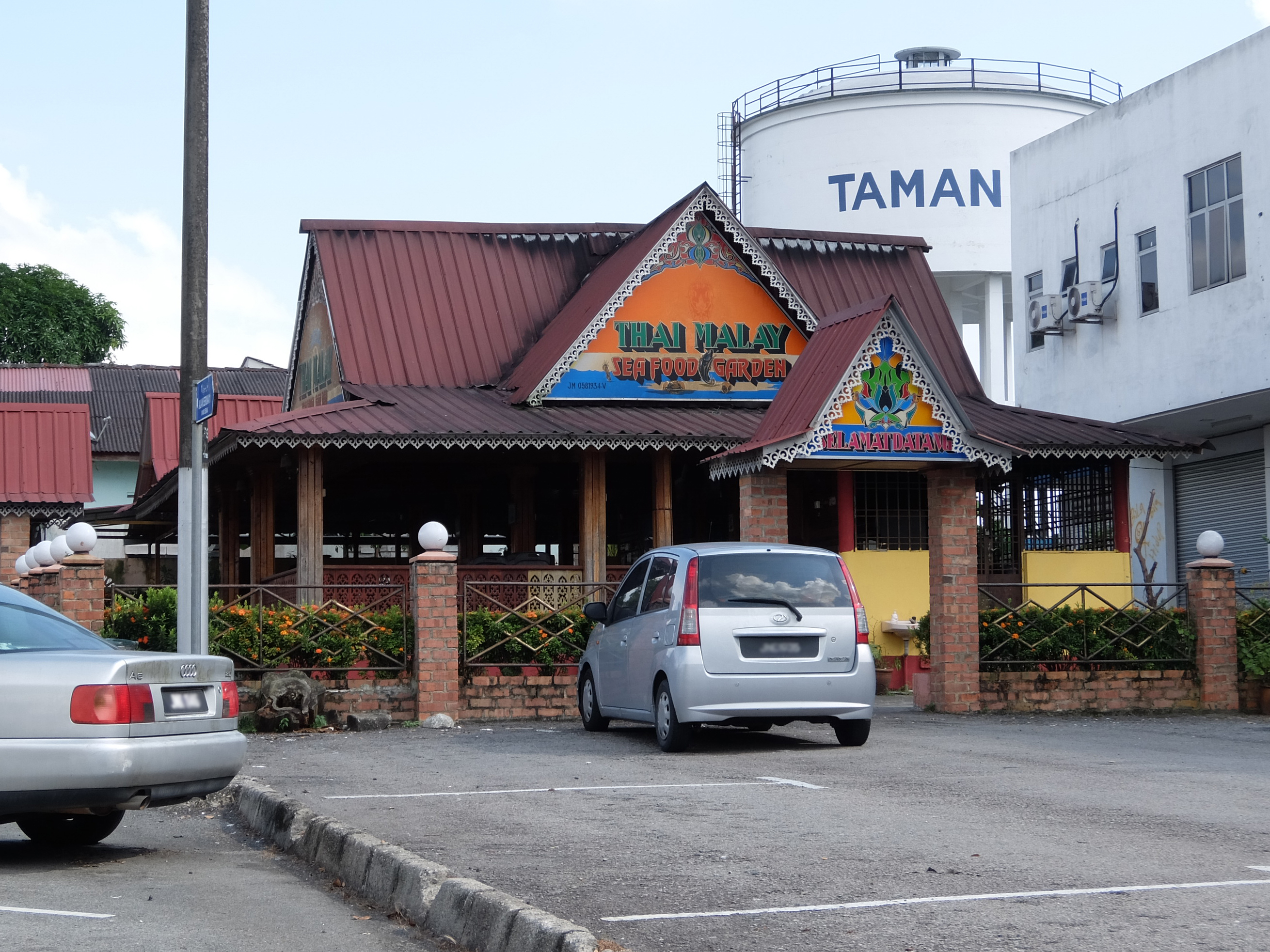 A Thai restaurant in Johor, Malaysia